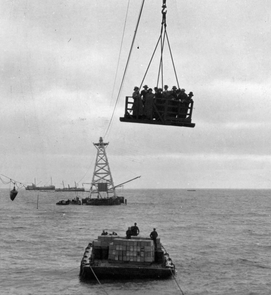 Tramway bringing passengers ashore at Nome late gold rush (1907 or later.) The tower in the picture has a crane suggesting the loading of lighters might take place there. However, the tower crane is small and is absent in later pictures showing the tramway in operation. File:Landing freight at Nome.jpg.[citation needed]